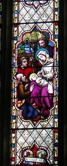 English stained glass